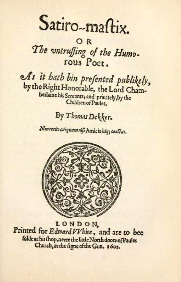 Facsimile of the title page of Satiromastix (1602), published in 1913